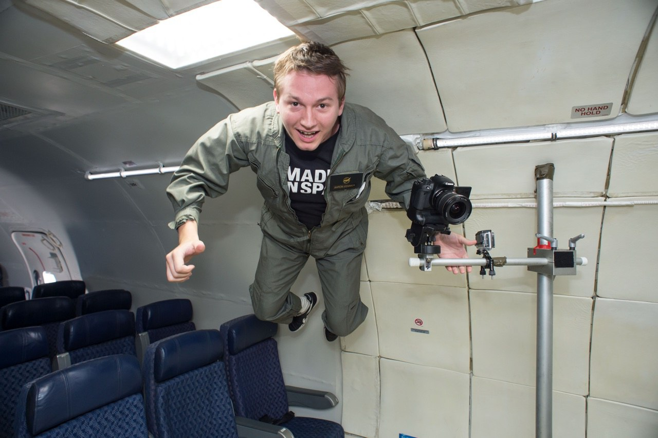 Aaron Kemmer In Space